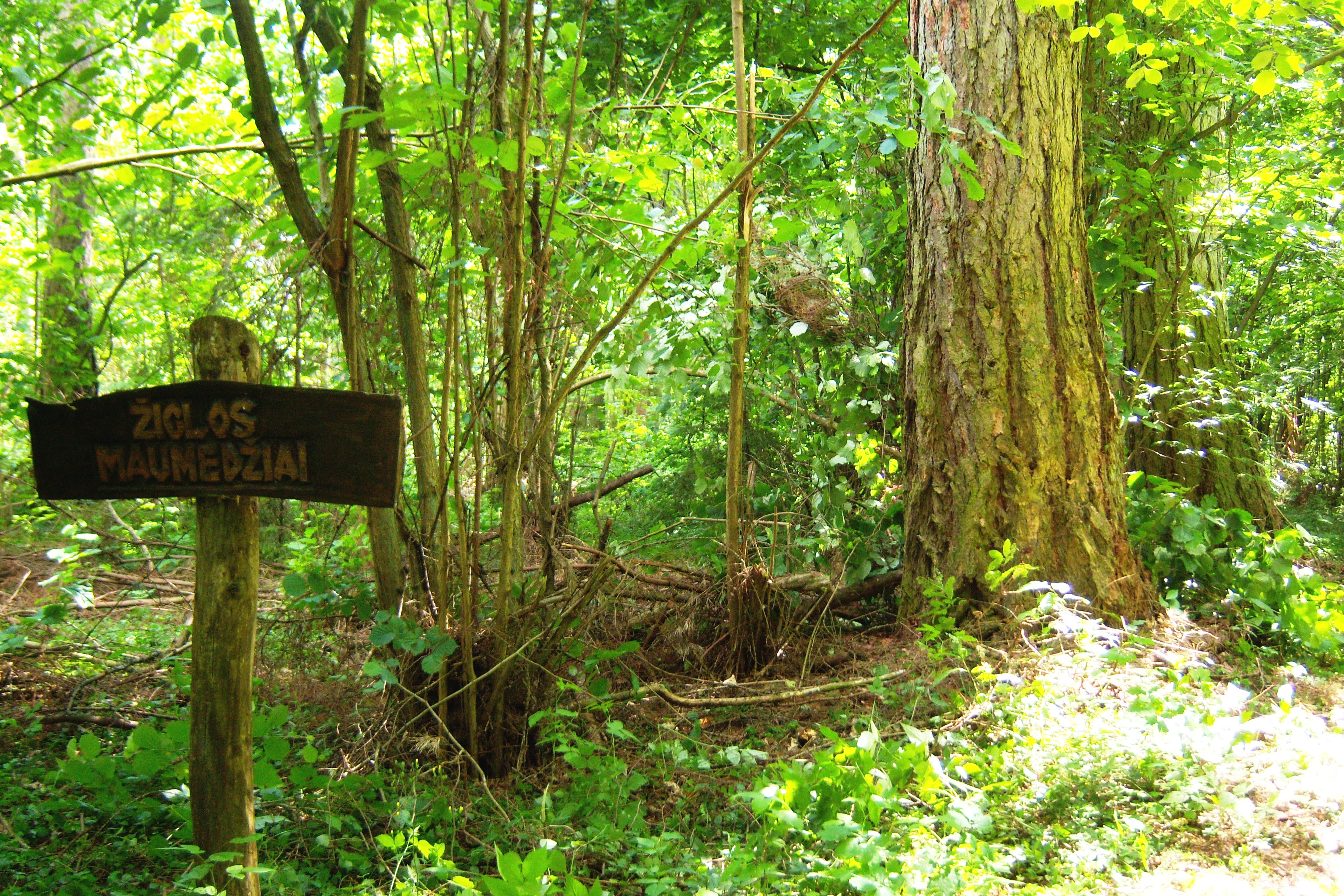 Larches on Žigla River bank, natural heritage object, Kaunas district, Lithuania